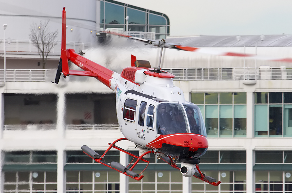 Author: Marek Wozniak Summary Bell 206L-4 Long Ranger IV C-FTHU operated by CTV News, is taking off from Vancouver Harbour helipad.